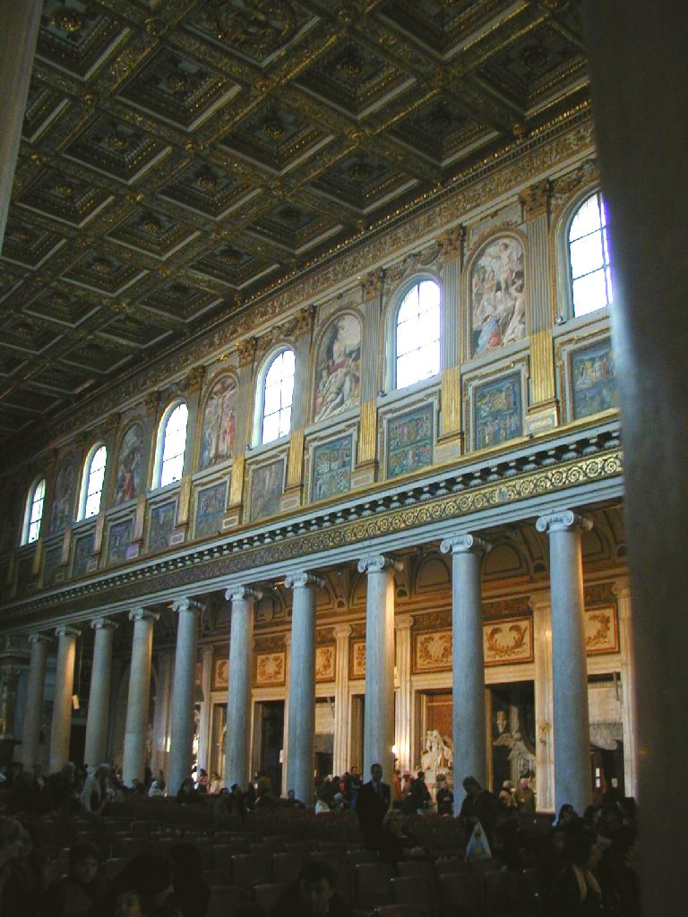 Rome, Basilica of Santa Maria Maggiore: nave